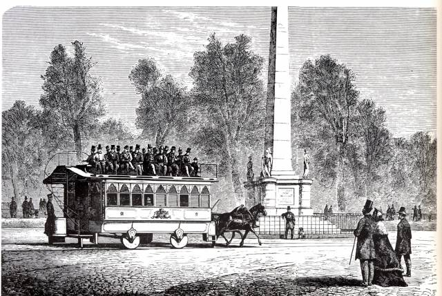 First horse-driven tram in Copenhagen, Denmark - 23 November 1863